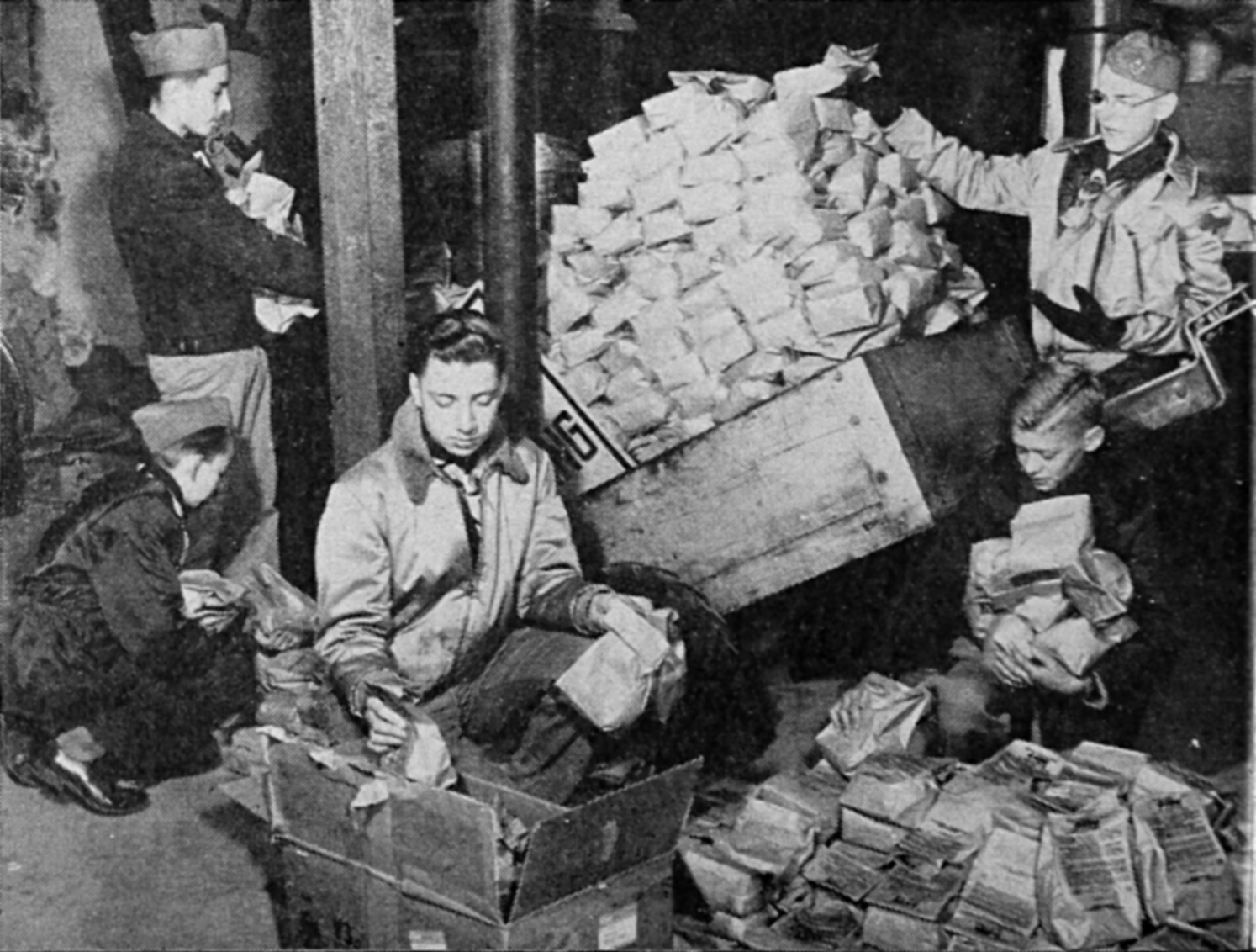 A group of Boy Scouts gather and prepare to distribute packets of d-CON in Middletown, Wisconsin as part of a promotional experiment by the company to demonstrate the effectiveness of its rodenticide